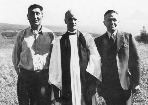 Chief Joe Bullshield, Reverend Archdeacon S. H. Middleton; Solon Low, Blood reserve, Alberta.